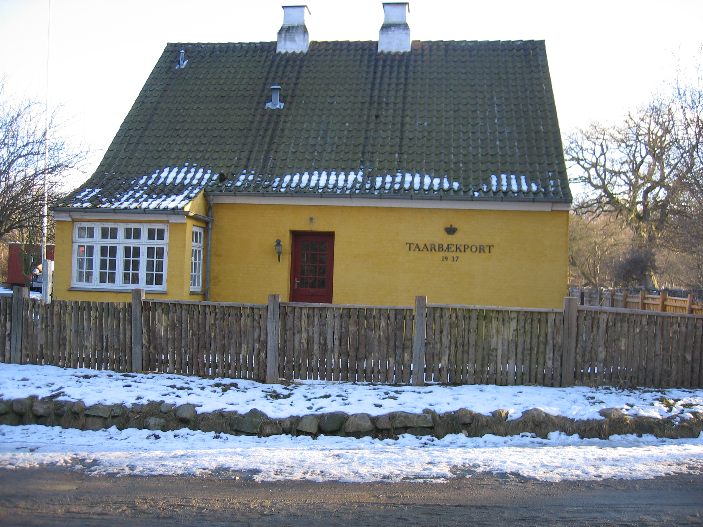 Taarbækport House, Jægersborg Deer park, Denmark